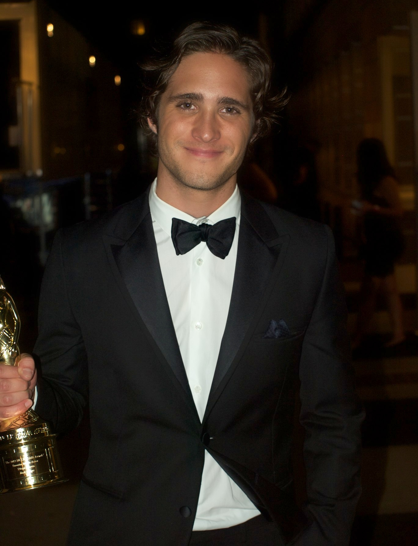 Diego Boneta at the Alma Awards 2012.